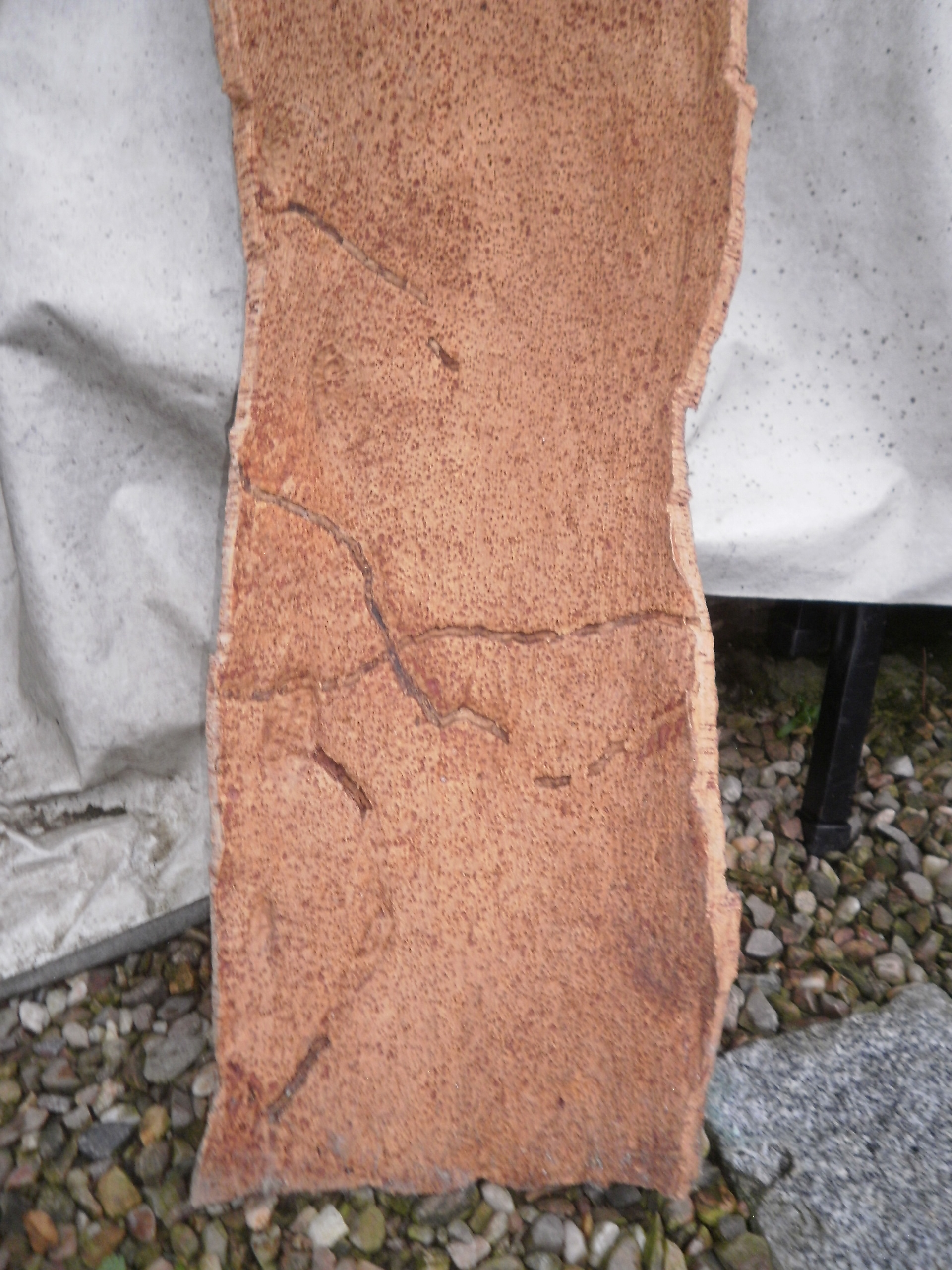 Coraebus undatus galleries in a piece of cork.